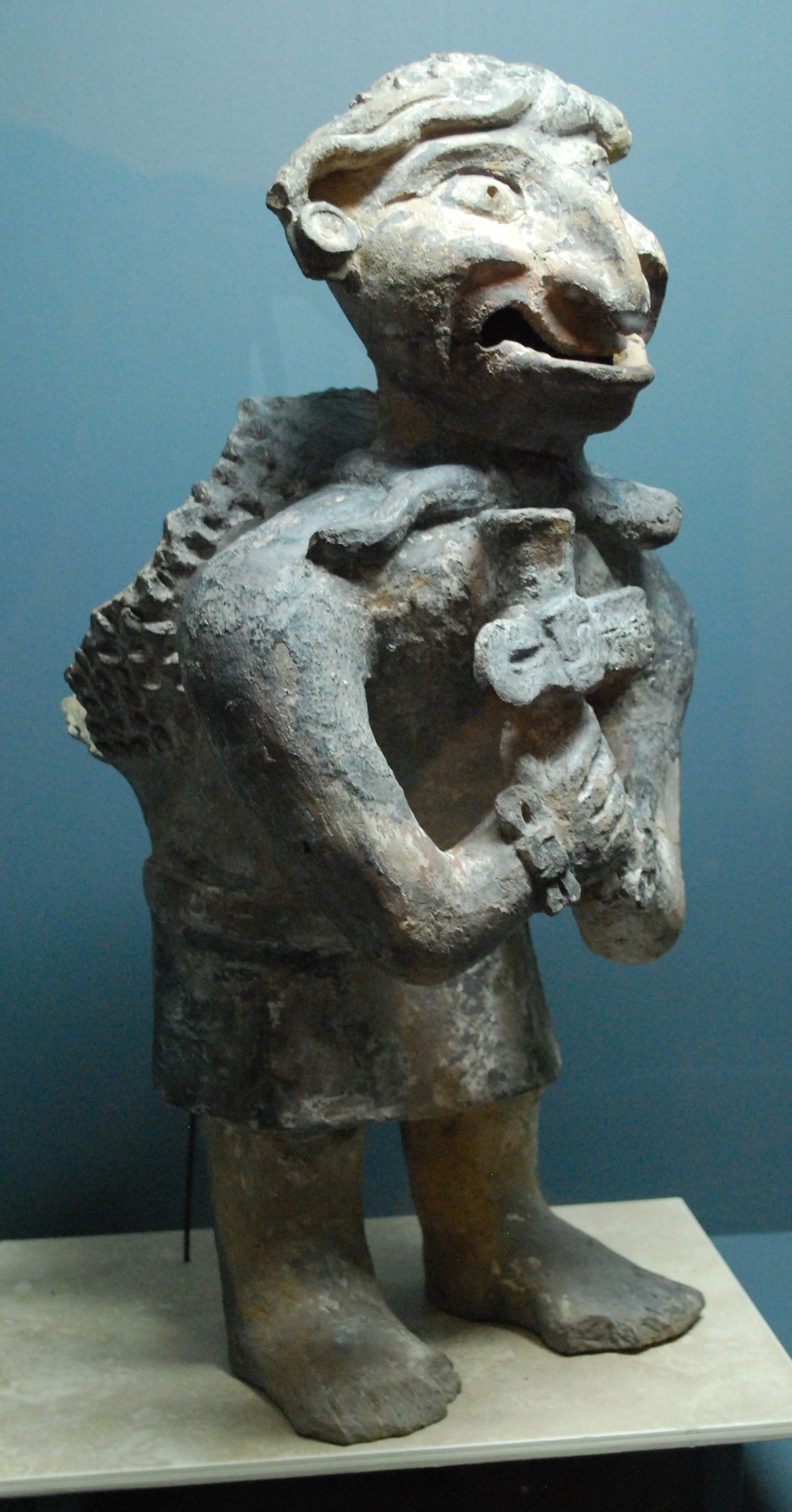 Zoque goddess of weaving and the moon, depicted as an old woman from the Los Bordos Cave in Cintalapa (600-900CE) on display at the Regional Museum in Tuxtla Gutierrez, Chiapas, Mexico